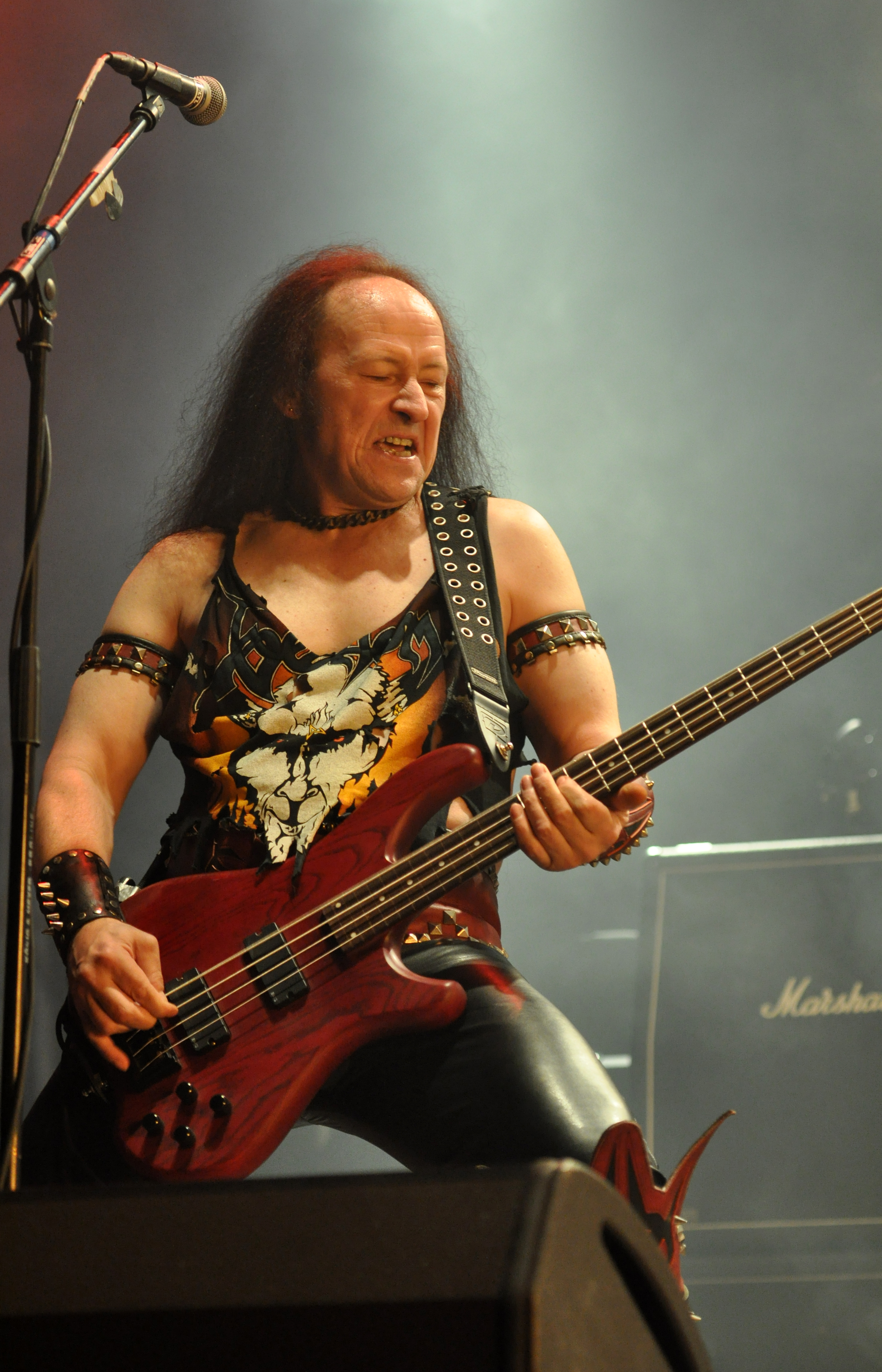 Venom at Party.San Metal Open Air 2013